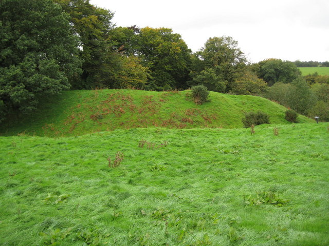 Lydford Early Norman Fort The early importance of Lydford can be recognised by the fact that the Saxon settlement was the subject of a Viking raid in 997, and by this Early Norman fort, built on a promontory overlooking Lydford Gorge at some time between the invasion of 1066 and 1100. Within the fort were five buildings which were in use as granaries when they were destroyed by fire and the fort was consequently abandoned in the twelfth century.